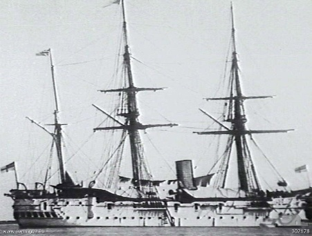 AWM caption : "STARBOARD SIDE VIEW OF THE SCREW CORVETTE HMS DIDO, PROBABLY TAKEN IN THE UNITED KINGDOM PRIOR TO HER ALLOCATION TO THE AUSTRALIA STATION. NOTE THAT SHE IS PAINTED WHITE FOR TROPICAL SERVICE."